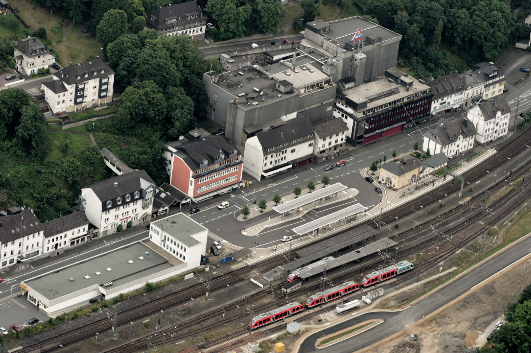 ehem. Hauptsitz von Metten Fleischwaren und Bahnhof, Finnentrop (Fotoflug Sauerland Nord FFSN-3384) The making of this document was supported by the Community-Budget of Wikimedia Germany.